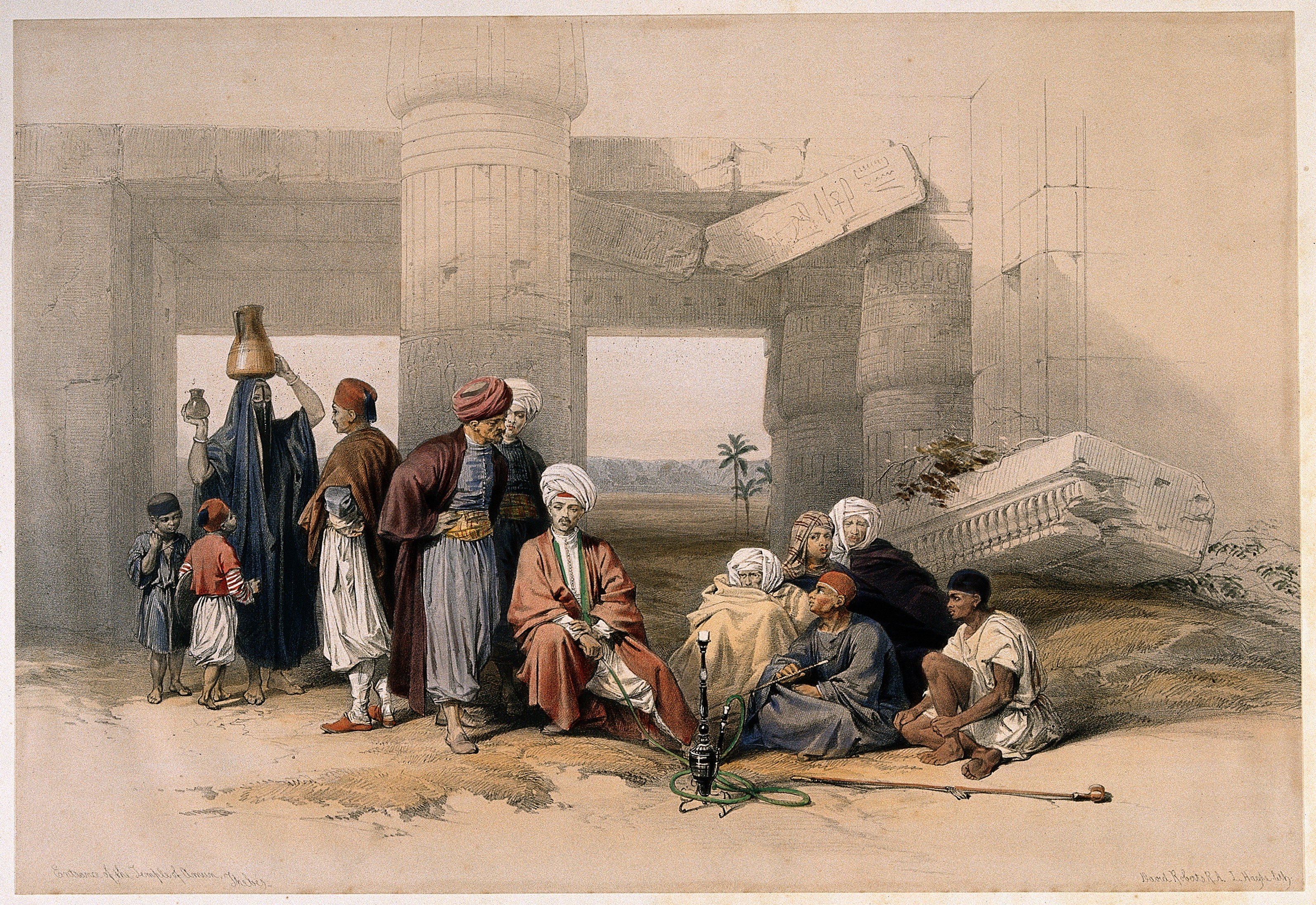 Men talking and smoking by the ruined Temple of Amun at Thebes. Coloured lithograph, c. 1849, by L. Haghe after D. Roberts. Iconographic Collections Keywords: David Roberts; Louis Haghe